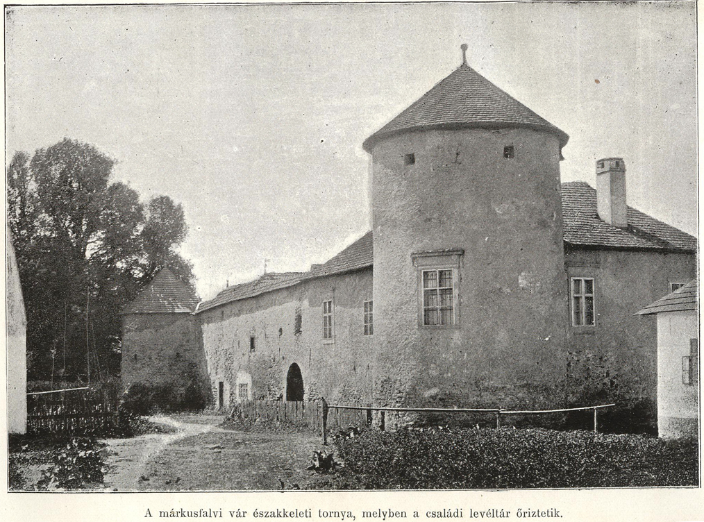 Mariássy Castle in Markušovce in 1916